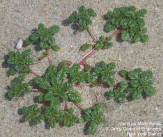 Sea Beach Amaranth (Amaranthus pumilus)